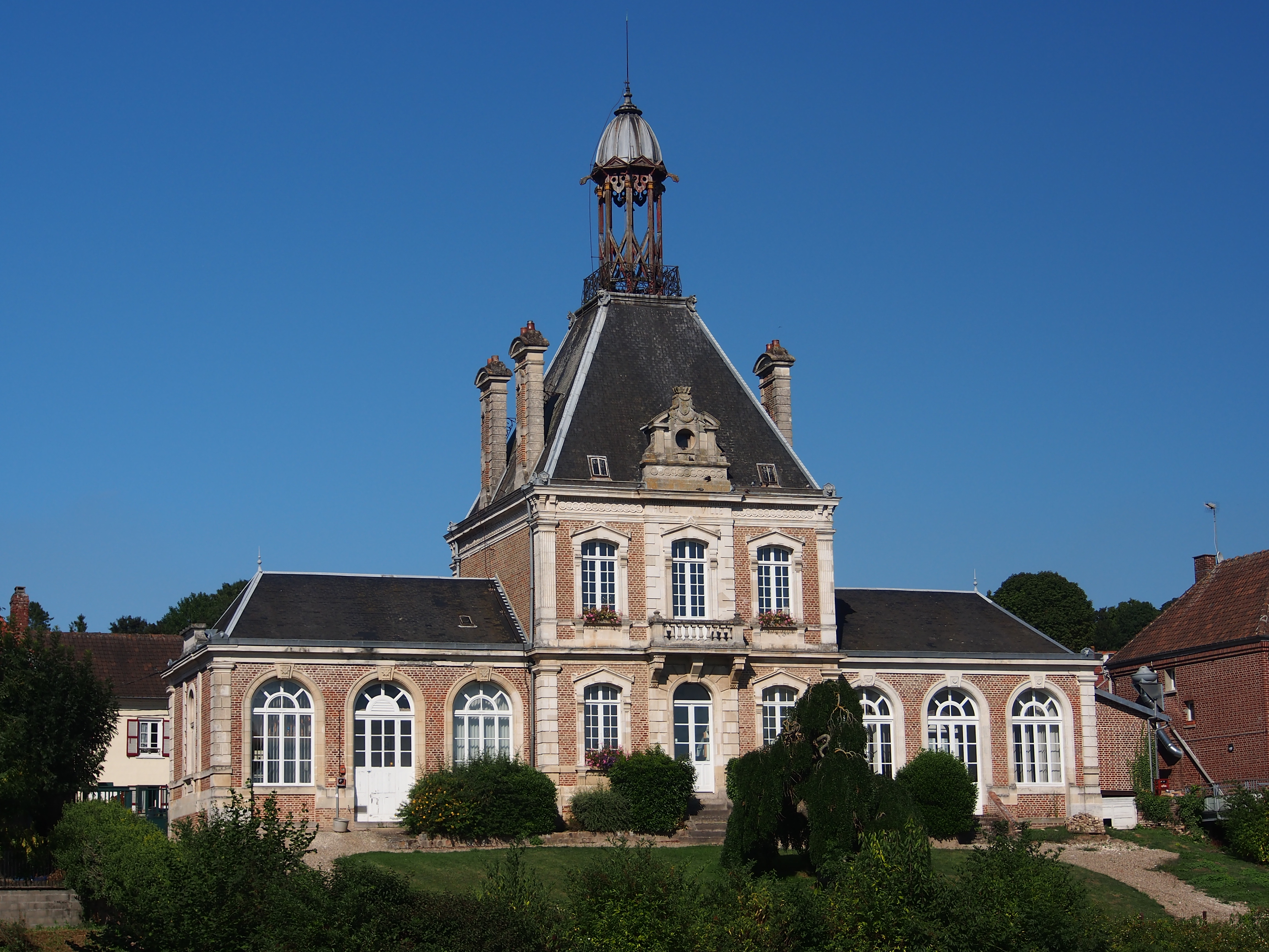 Hotel de Ville de Long in the Somme department, Hauts-de-France region.